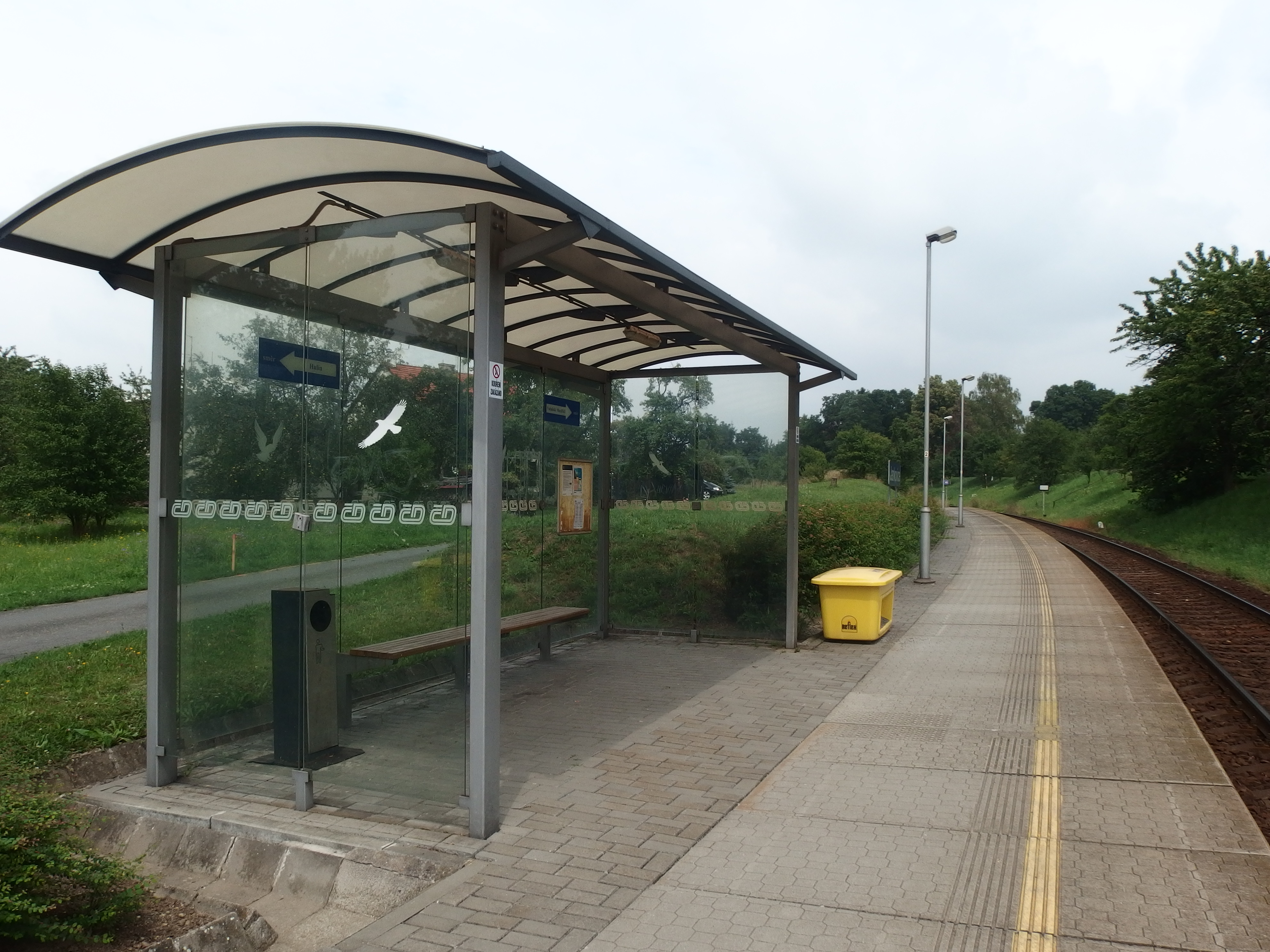 Jankovice, Kroměříž District, Czech Republic.